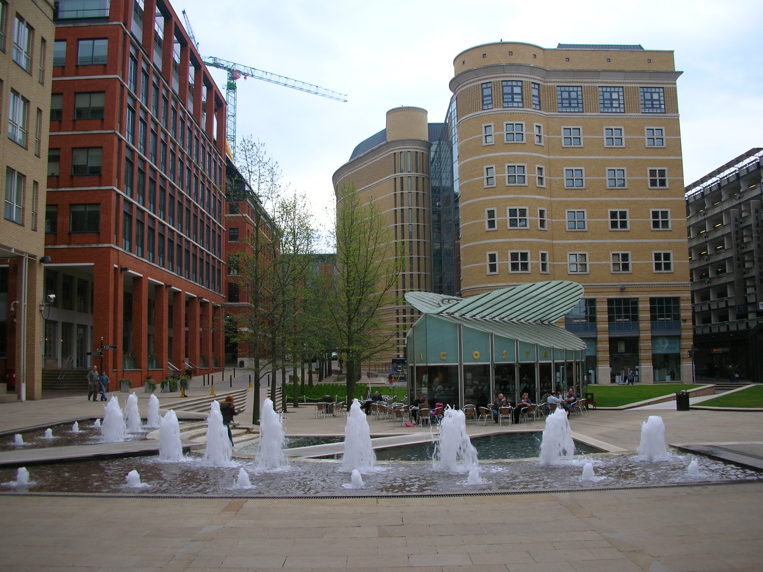 The fountain in Central Square, Brindleyplace, Birmingham, England. The buildings are (left to right} Two, Six, Seven, and Five (occupying right 60% of picture). Photographed from the steps of Three Brindleyplace by me 22 April 2007. Oosoom